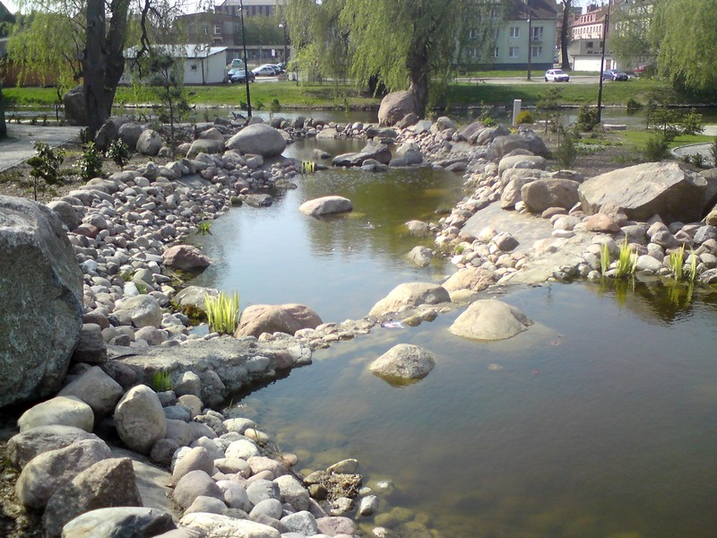 Water water - course in Japanese garden in Gryfice (Poland)